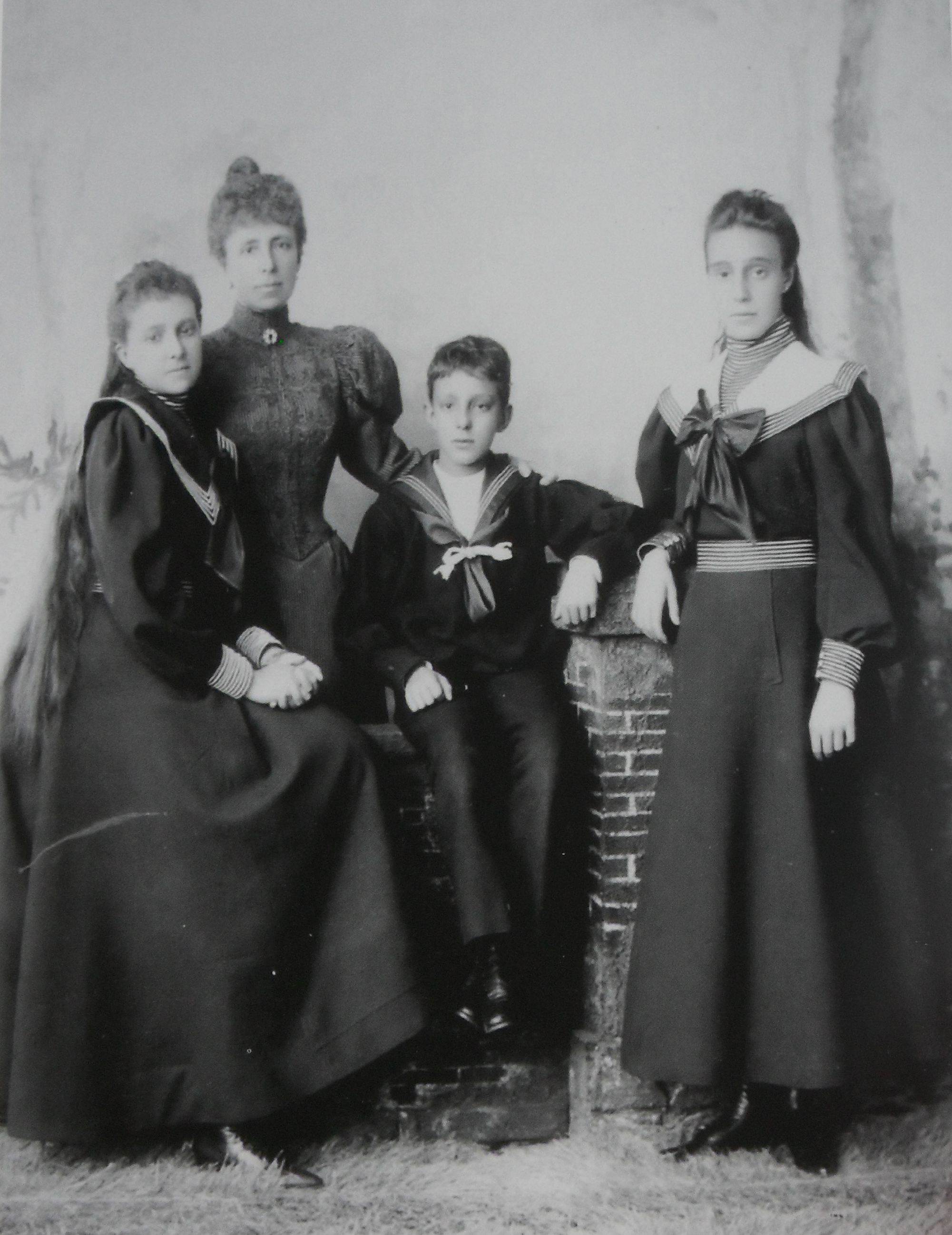 Queen Maria Cristina of Spain and her three children